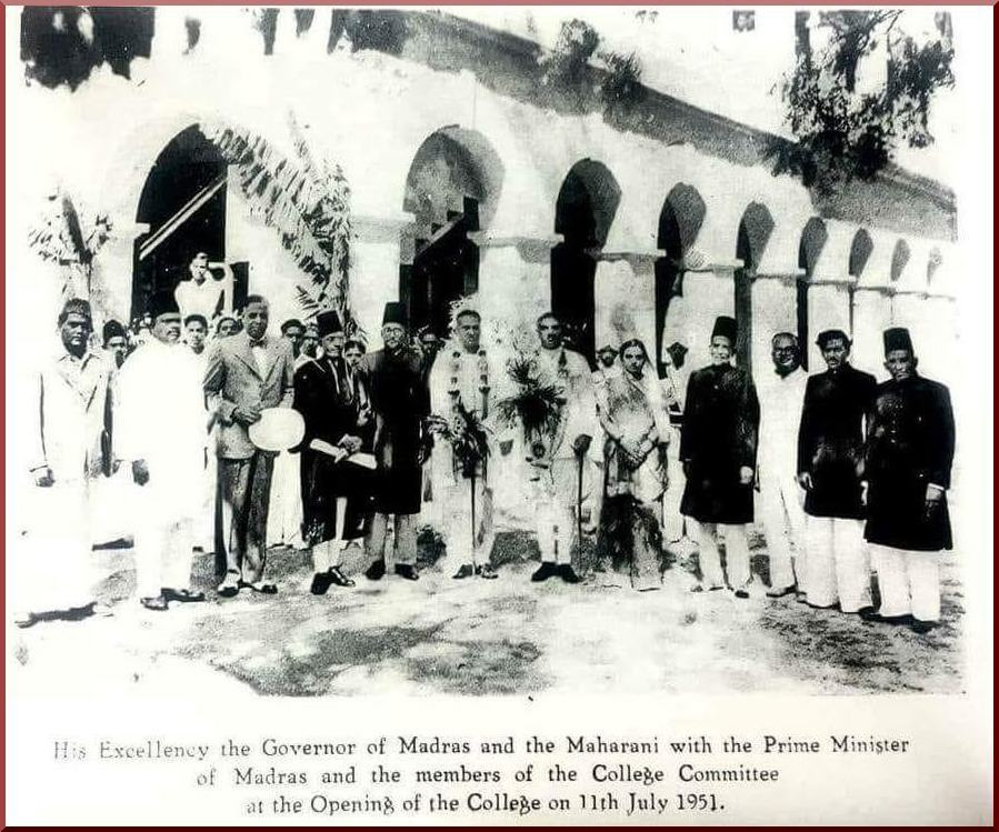 JMC